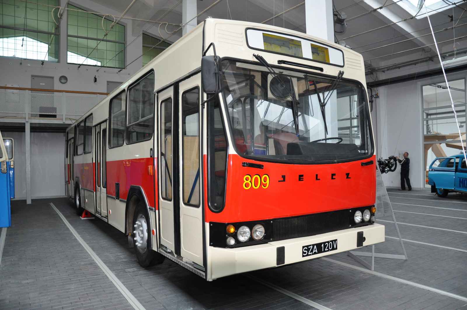 Jelcz PR110M bus (#809) in Szczecin, Poland. Built 1991. Muzeum Techniki i Komunikacji - Zajezdnia Sztuki w Szczecinie.